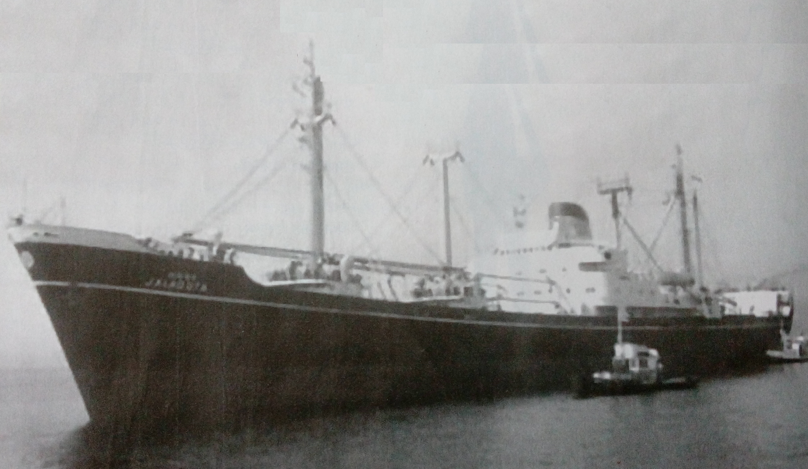 SS Jalabala (1927) was ship owned by Indian shipping company The Scindia Steam Navigation Company Ltd. The image is still from 1947 documentary film produced by Scindia Navigation.